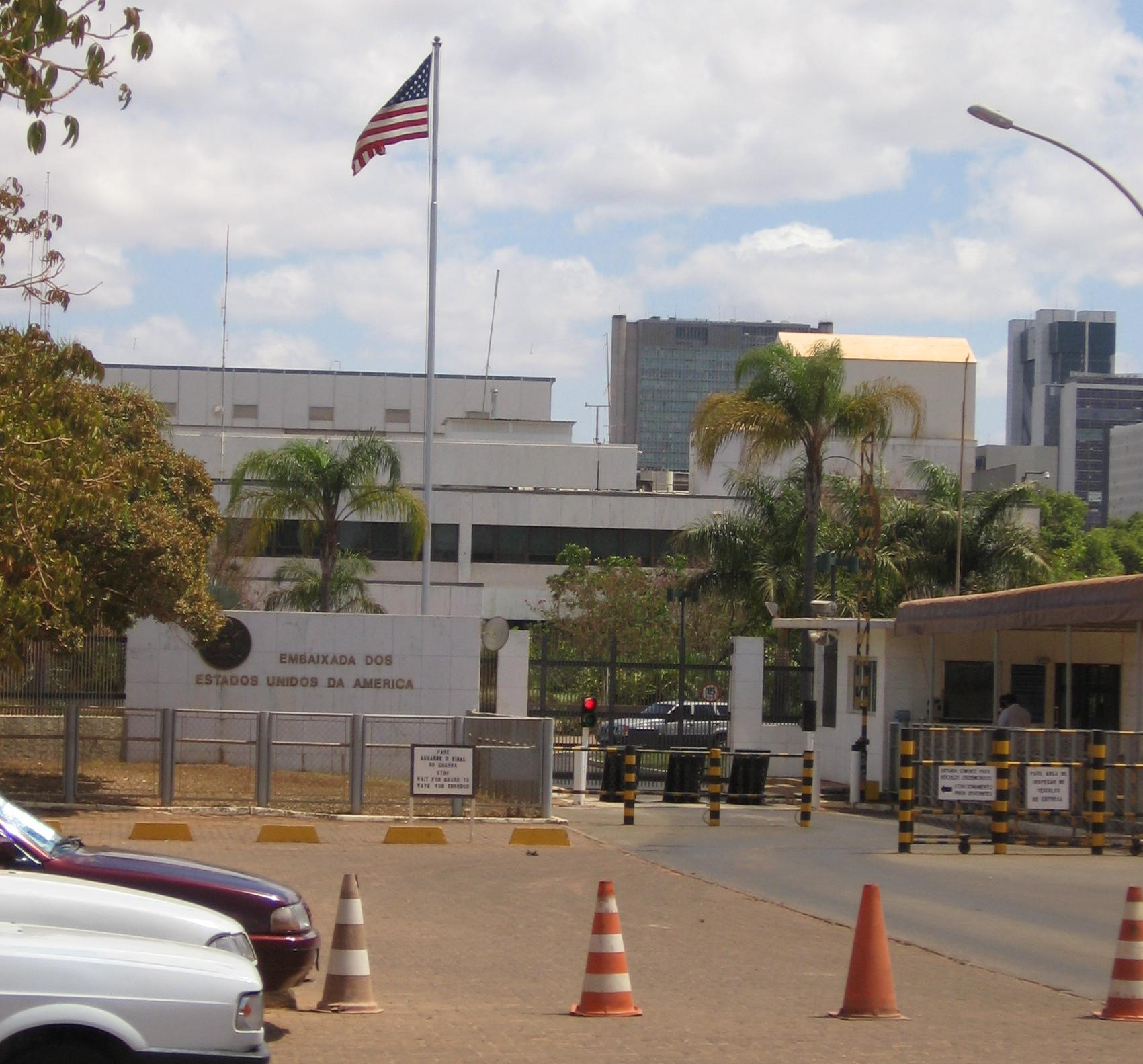 Front entry of the US of A Embassy in Brasilia, Brazil